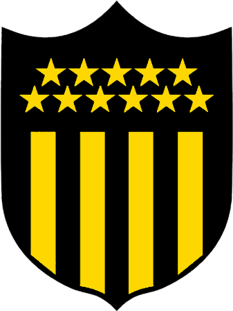 Logo of Uruguayan Club Atlético Peñarol de Montevideo.